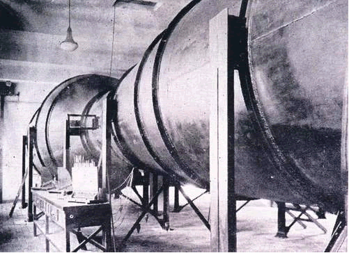 The Wind Tunnel of Tsinghua University in 1937